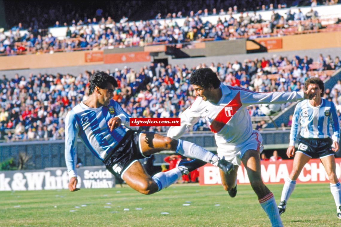 José L. Brown v Perú, match played at River Plate.